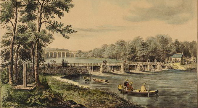 The early days of Morrisania with Croton Aqueduct in the background